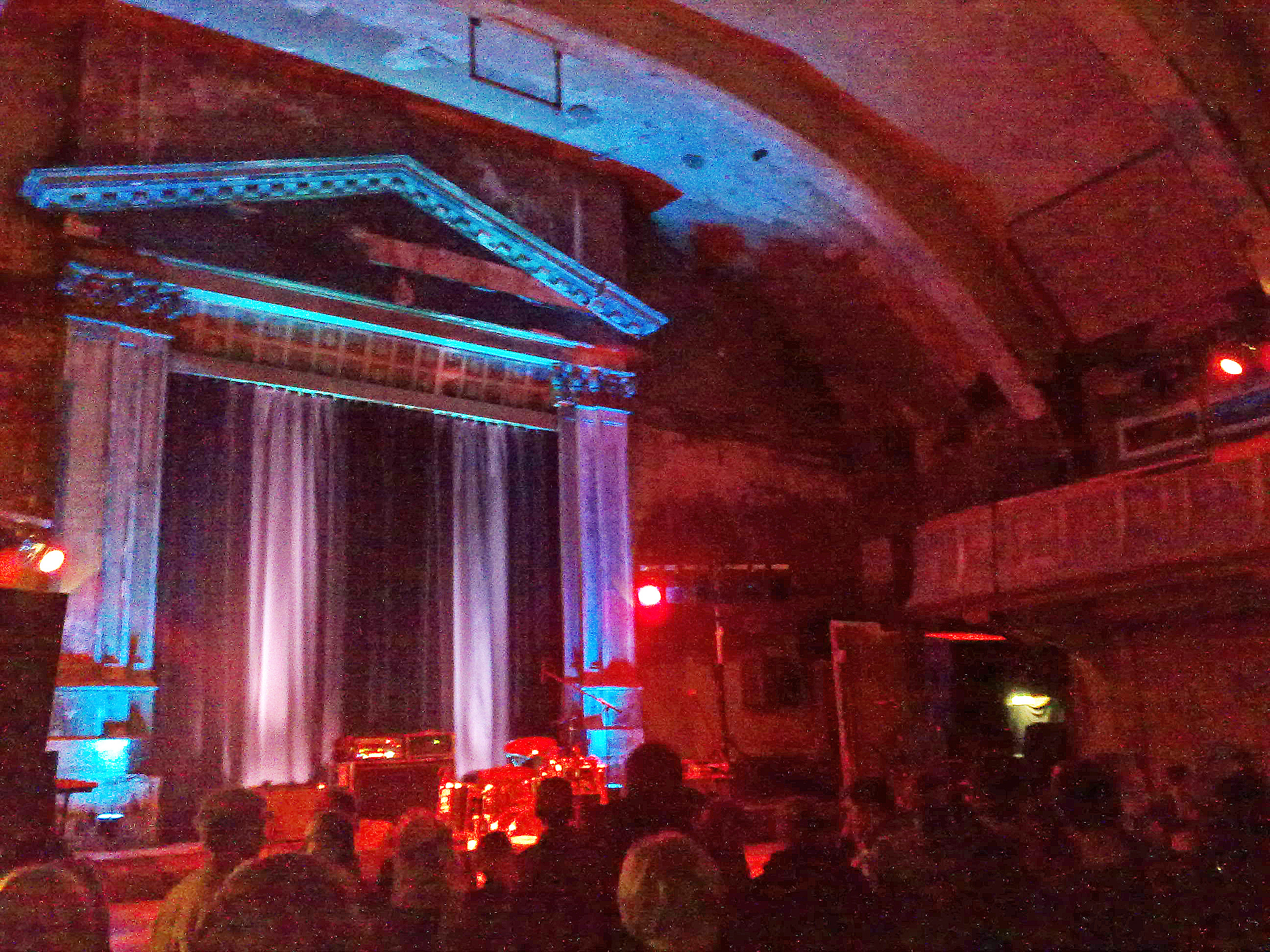 Interor and stage of cinema theatre and cultural venue UT Connewitz in Leipzig/Germany